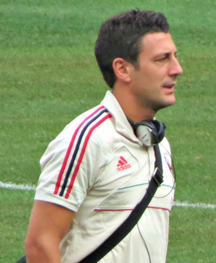 Daniele Bonera is an Italian football player.